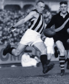 Photograph of Harold Rumney from 1927-1937